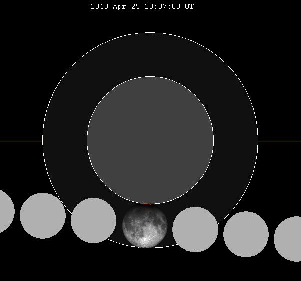 April 2013 lunar eclipse chart of moon's path through the earth's shadow. thumb